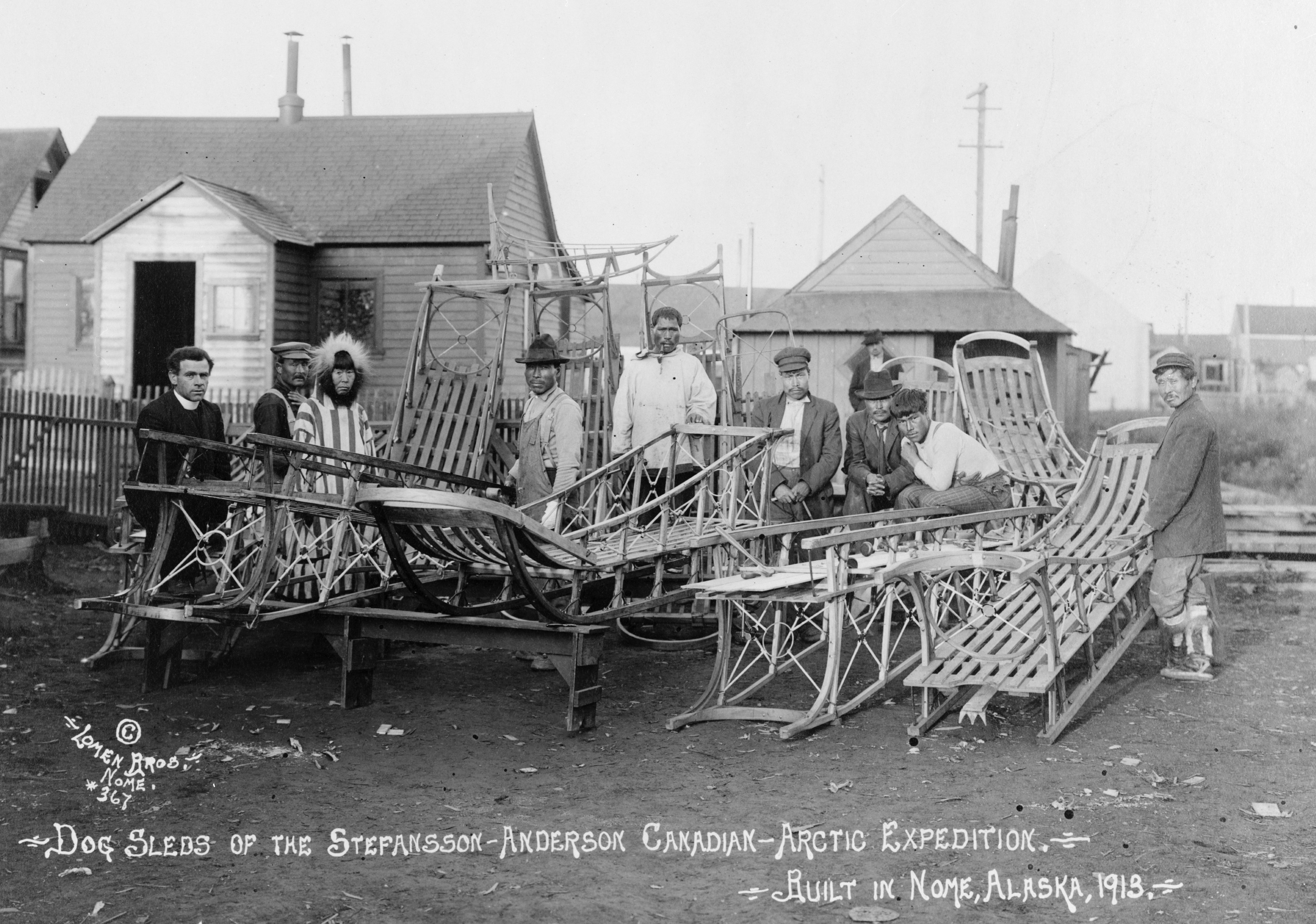 Dog sleds of the Stefansson–Anderson Canadian-Arctic expedition. Built in Nome, Alaska, 1913 SUMMARY: Group of Eskimos(?) in traditional and western dress and a caucasian clergyman gathered around dog sleds. MEDIUM: 1 photographic print.